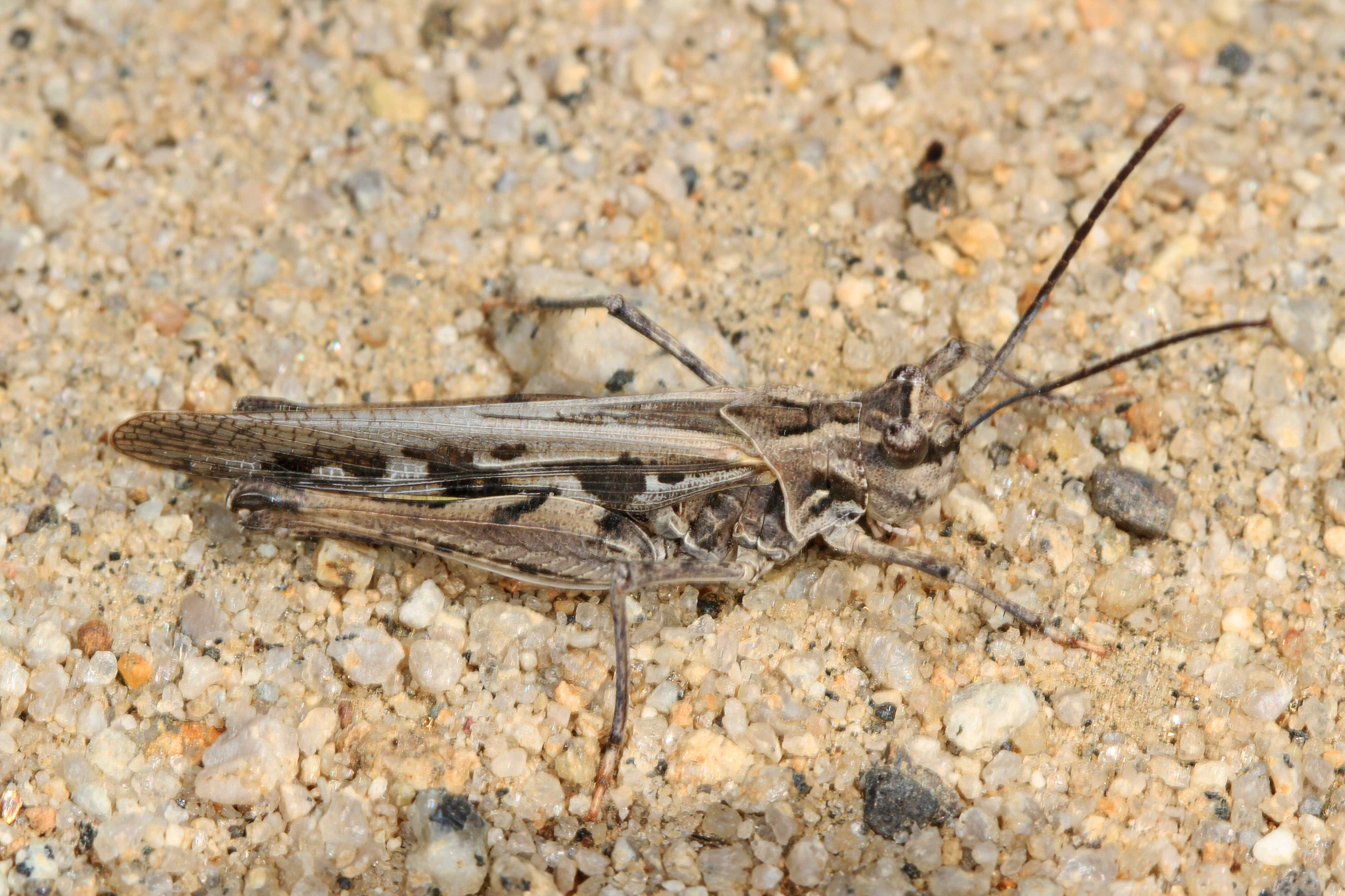 Band-winged Grasshopper - Metator nevadensis, Calpine, California.